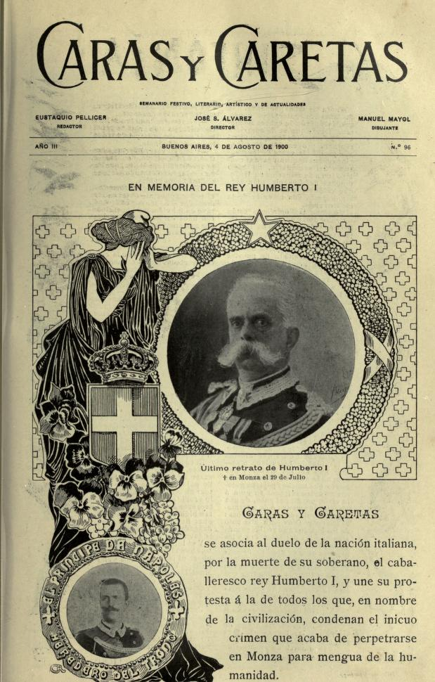 Cover of Argentine magazine Caras y Caretas honoring Humberto I of Italy.